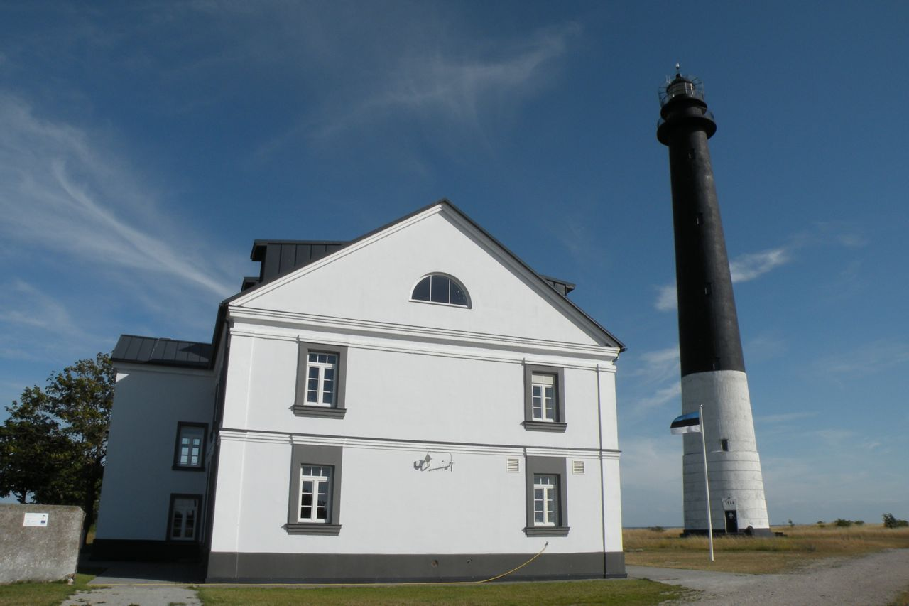 Sõrve lighthouse